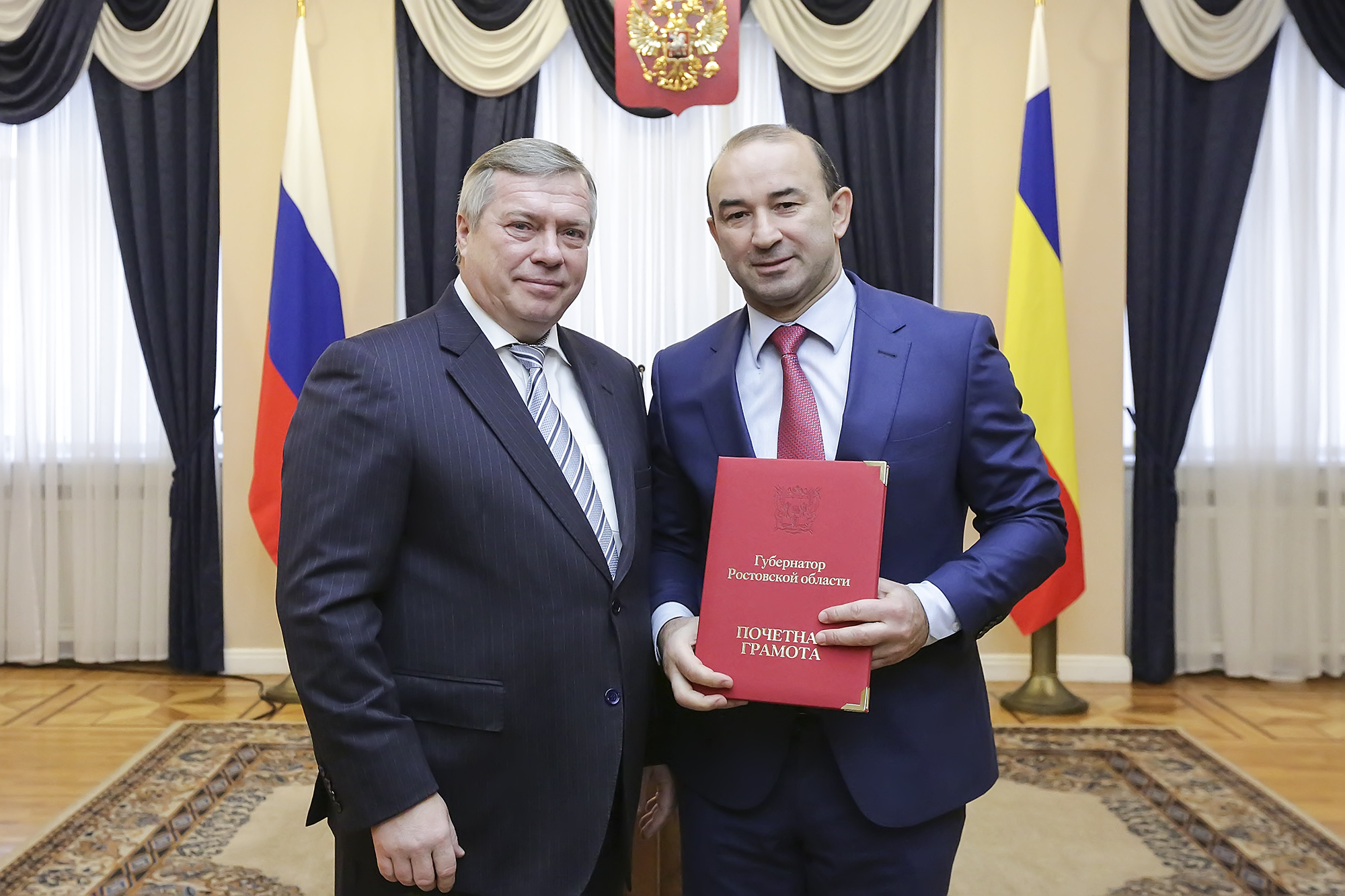 Rostov-on-Don, 12 December 2016. Governor of Rostov Oblast Vasily Golubev during the presentation of the Rostov Oblast Gubernatorial Certificate of Honour to the General Director of Eurodon, Ltd. Vadim Vaneyev at the Rostov Public Assembly building.